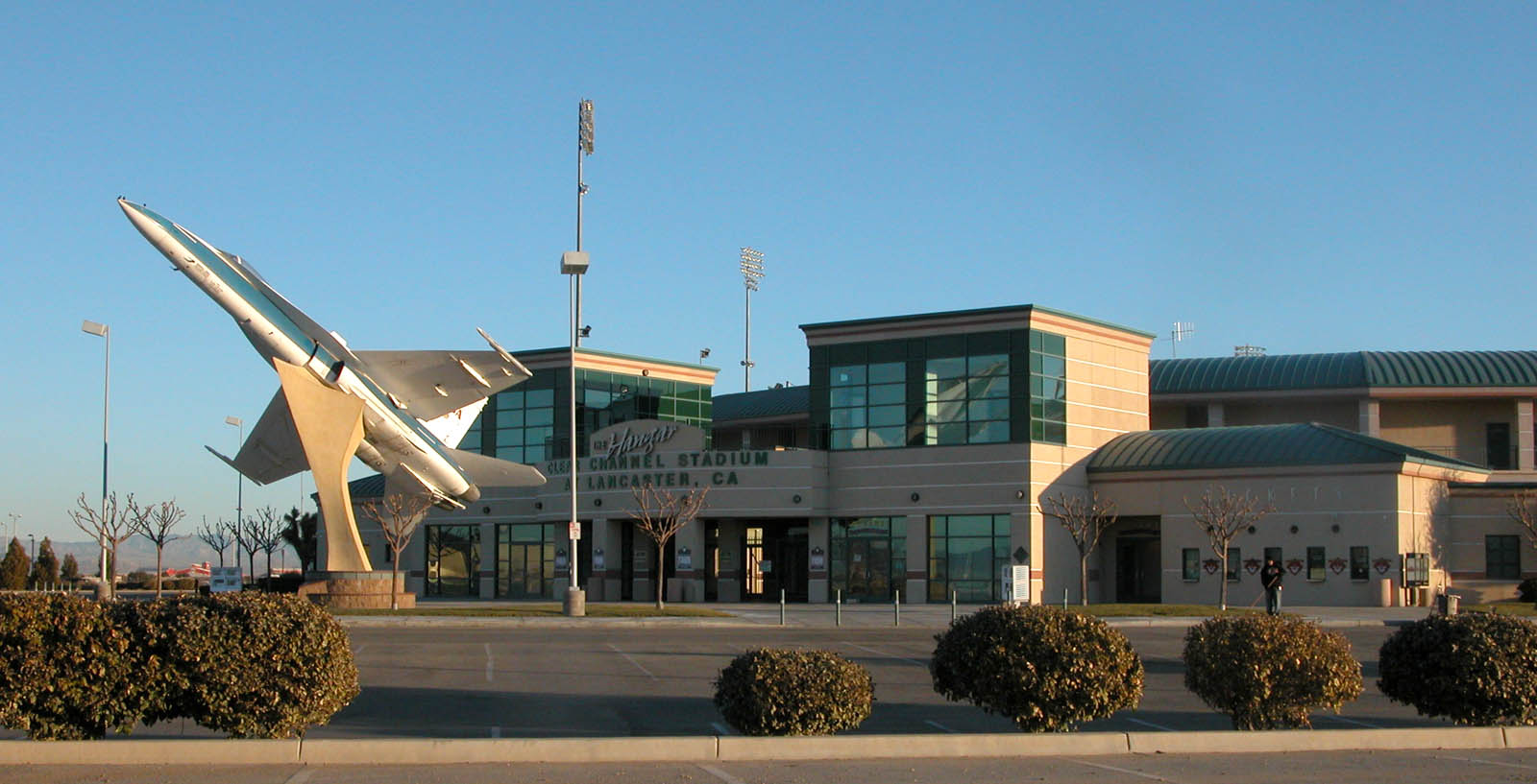 Clear Channel Stadium (also known as The Hangar) in Lancaster, California